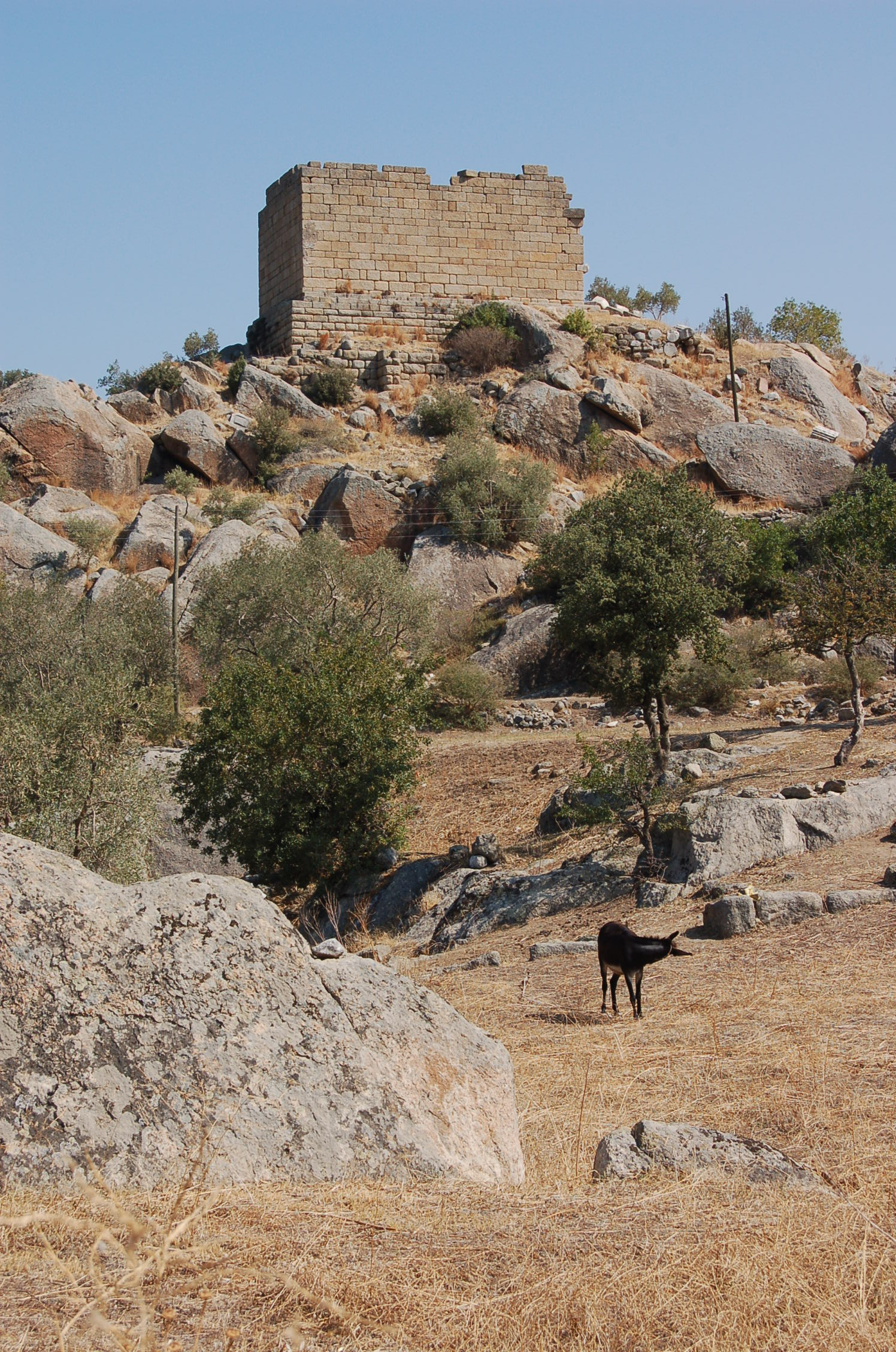 Heraclea by Latmus, temple of Athena